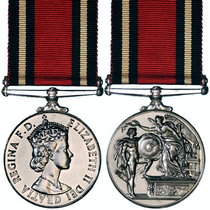 The second Queen Elizabeth II version of the Queen's Medal for Champion Shots in the Military Forces